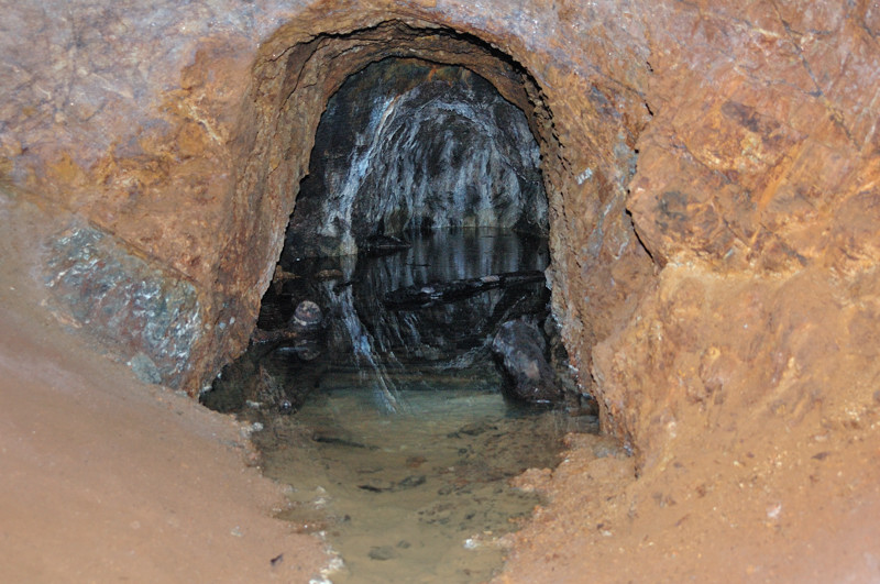 Adit in the old stibnite mine near Kuchyňa, Malé Karpaty